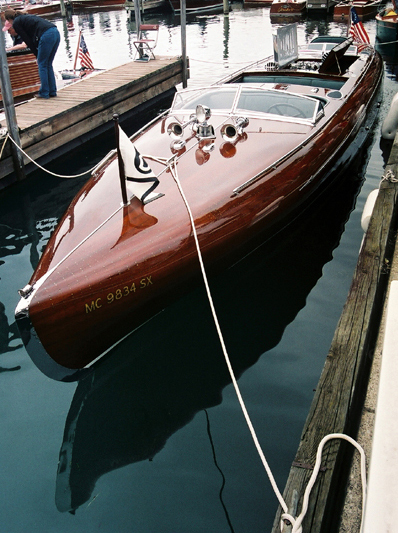 Lockpat II, one of John Hacker's masterpieces. Fitted with a V10 gas engine, she was capable of speeds in excess of 60mph - an extraordinary feat of design and engineering at the time.